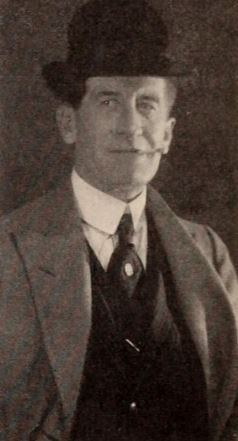 Actor Frank Campeau, on page 51 of the January 24, 1920 Exhibitors Herald.